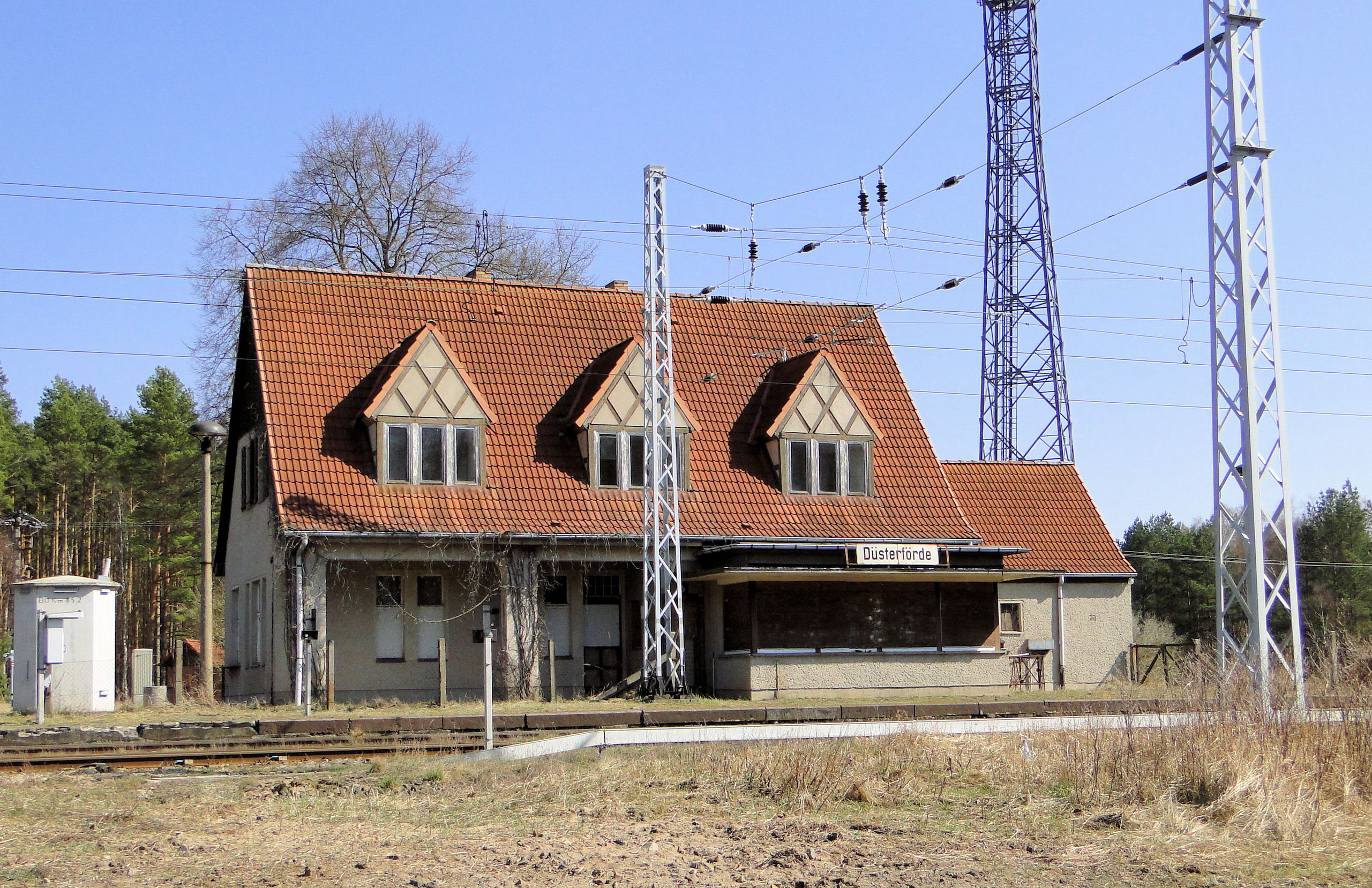 Former train station in Düsterförde, disctrict Mecklenburg-Strelitz, Mecklenburg-Vorpommern, Germany